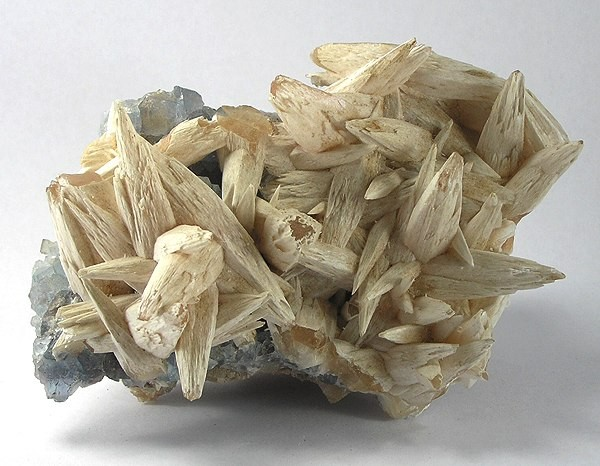 Benstonite, Calcite, Fluorite Locality: Mahoning No. 1 Mine (Minerva No. 1 Mine), Ozark-Mahoning Group, Cave-in-Rock Sub-District, Illinois - Kentucky Fluorspar District, Hardin County, Illinois, USA (Locality at ) Size: 15.4 x 12.2 x 11.9 cm. This is an OLD, unusual, very large specimen from Hardin County that is very uncommon to see on the market. What you have is these large, very spiky calcite scalenohedra (some of them do have tip cleaves), with a coating of whitish benstonite. The calcites have grown on a layer of teal-colored fluorite. Two layers of this fluorite sandwich a layer of brownish-yellow calcite. An old-timer! Ex. collection of Gary Hansen, noted Mid-west dealer until 1980s.